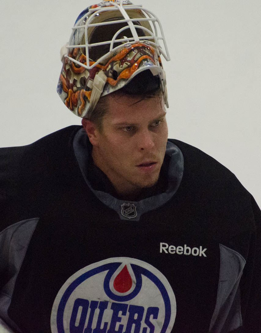 Viktor Fasth at an Edmonton Oilers practice, Sept. 27, 2014